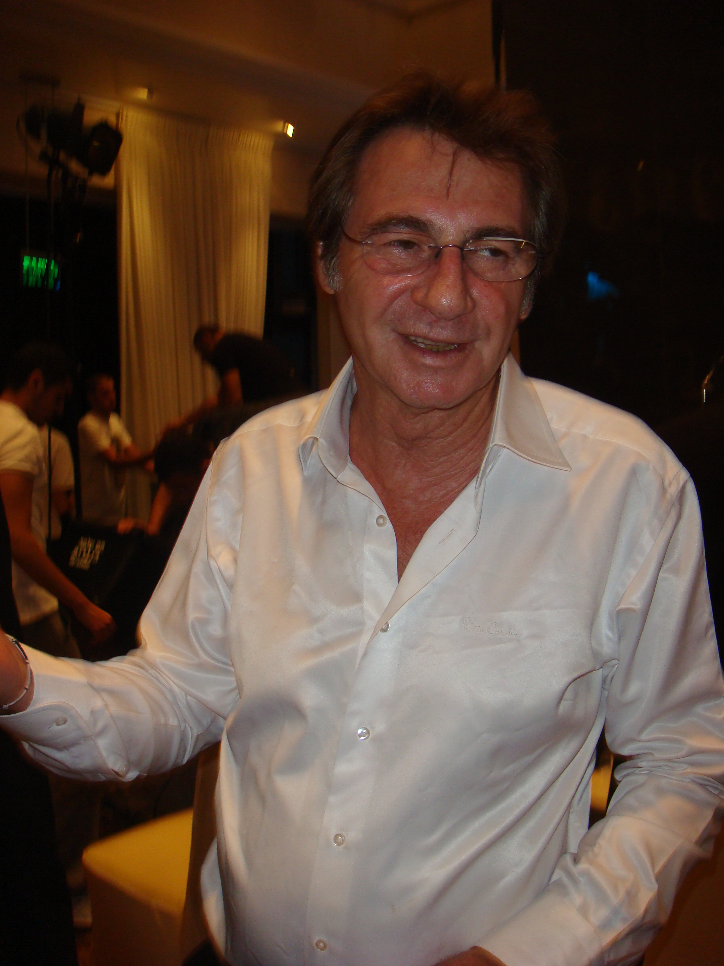 Israeli Artist Moti Giladi.